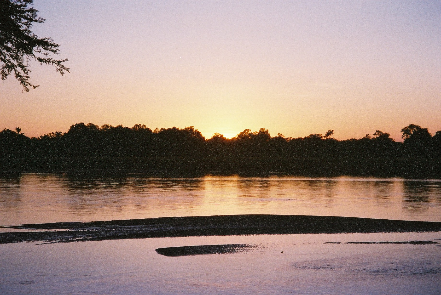 Sunset on the Luangwa River; taken opposite the South Luangwa National Park, Zambia